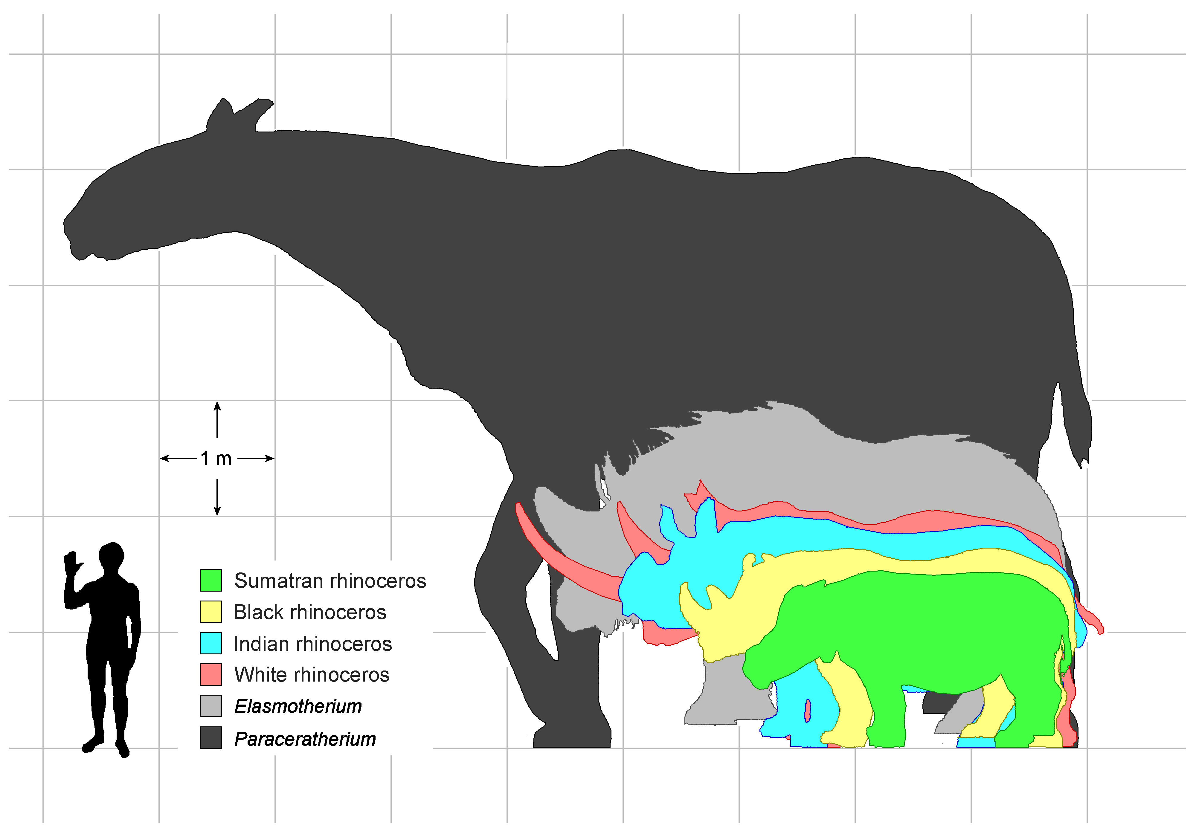 Relative sizes of Paraceratherium, Elasmotherium, white rhinos, Indian rhinos, black rhinos and Sumatran rhinos compared to a human; the animal-outlines and size comparisons are taken from Henry Fairfield Osborn: The extinct giant rhinoceros Baluchitherium of Western and Central Asia. Natural History, New York 23 (3), 1923, p. 208–228 (p. 225) The original image has been modified by translating German common names to English.